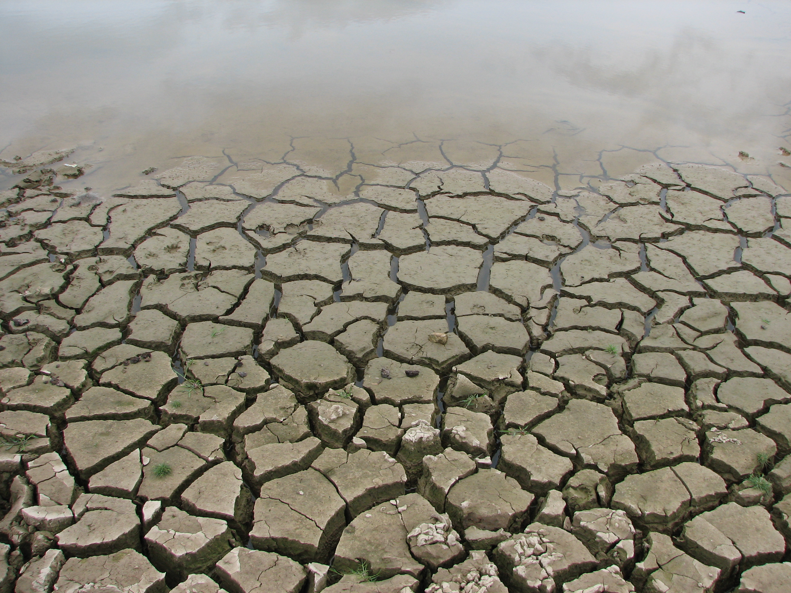 dry mud